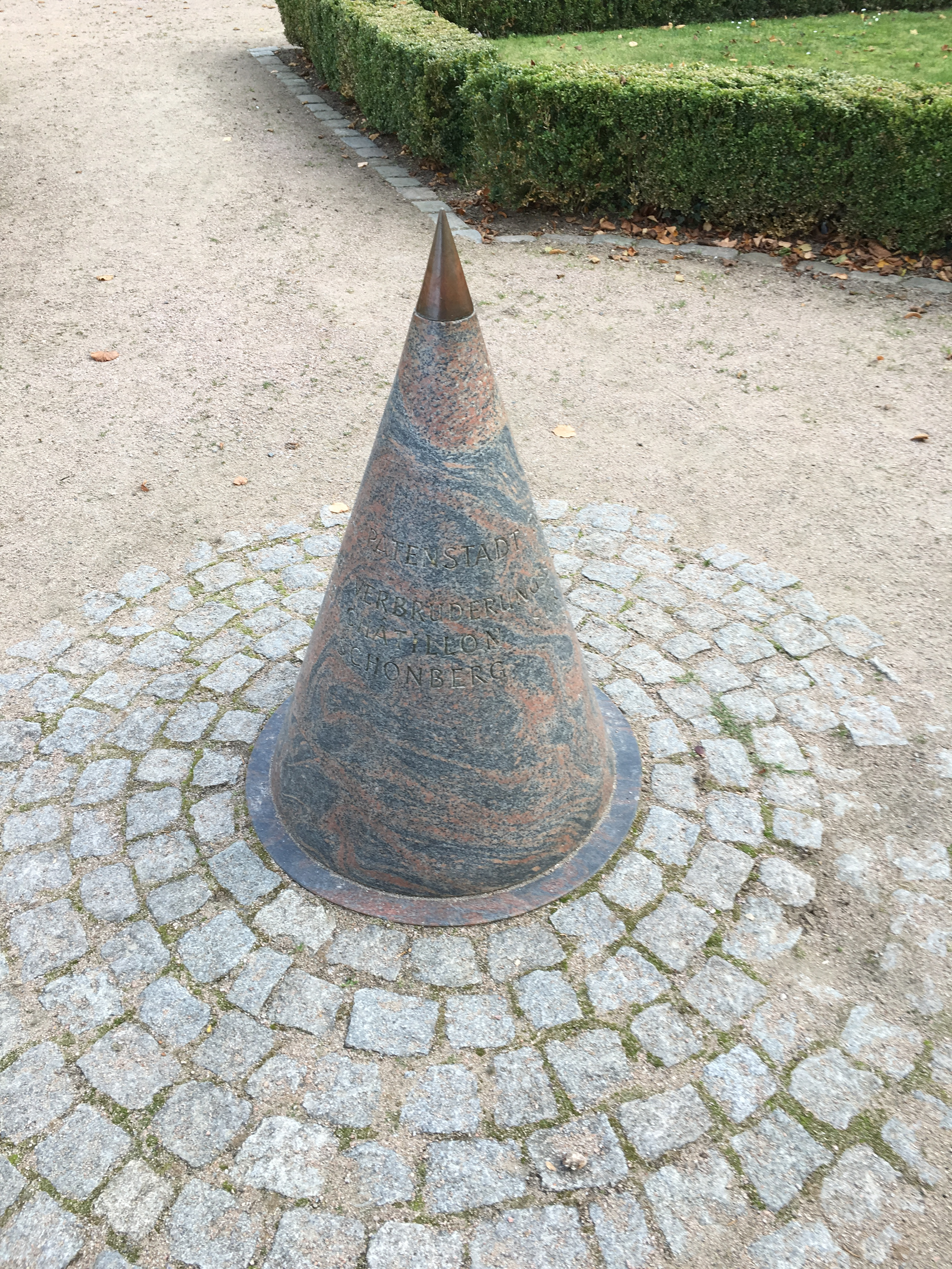 Memorial in Ratzeburg